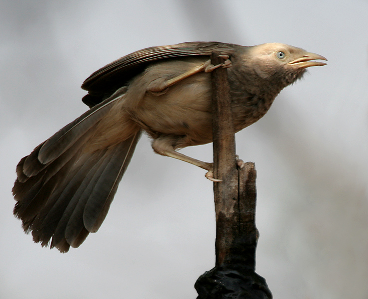 Yellow-billed Babbler or White-headed Babbler Turdoides affinis at Deer Park in Shamirpet, Rangareddy district, Andhra Pradesh, India.